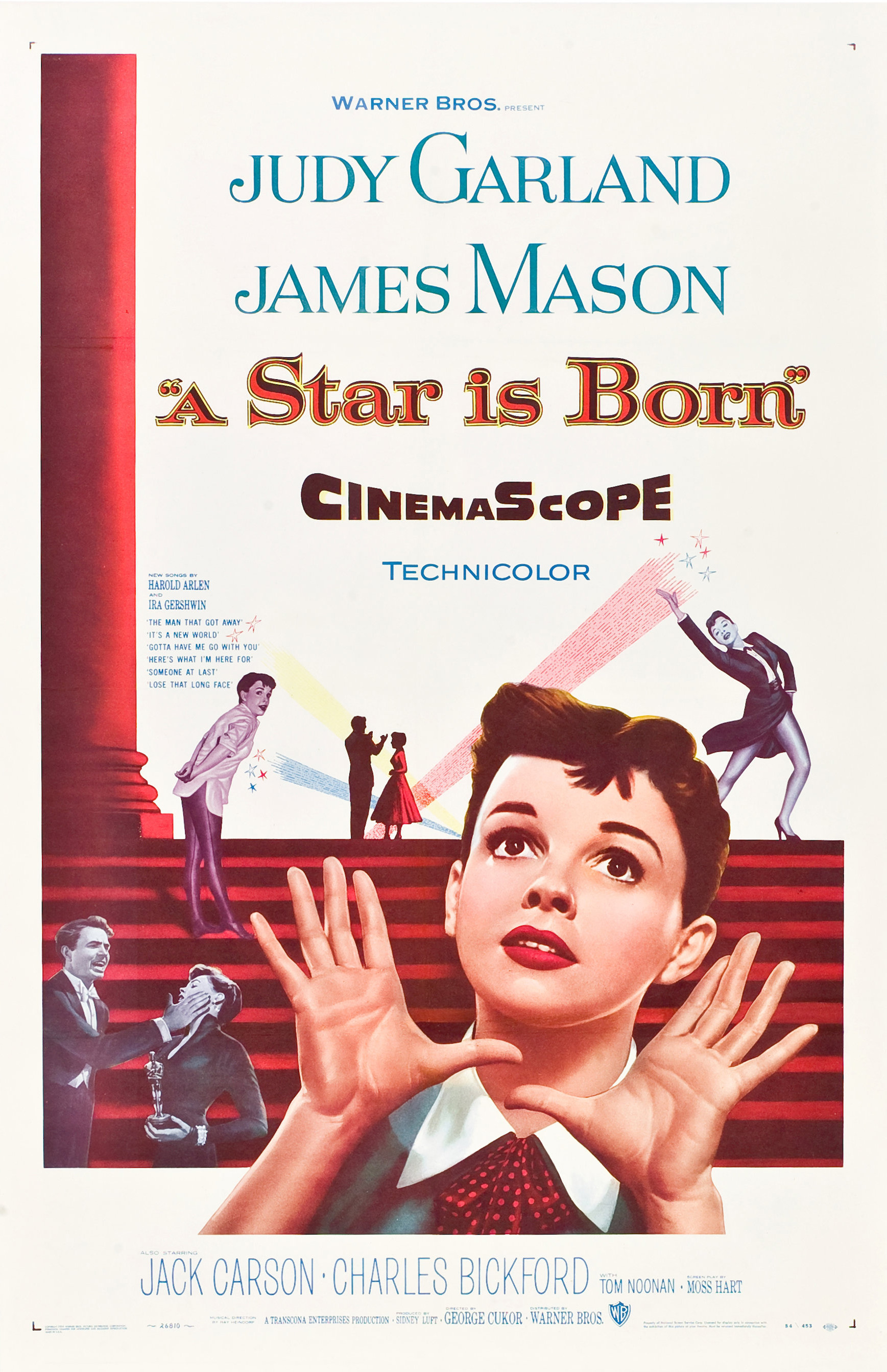 Theatrical release poster for the 1954 musical film A Star Is Born, the first remake of the 1937 film of the same name.